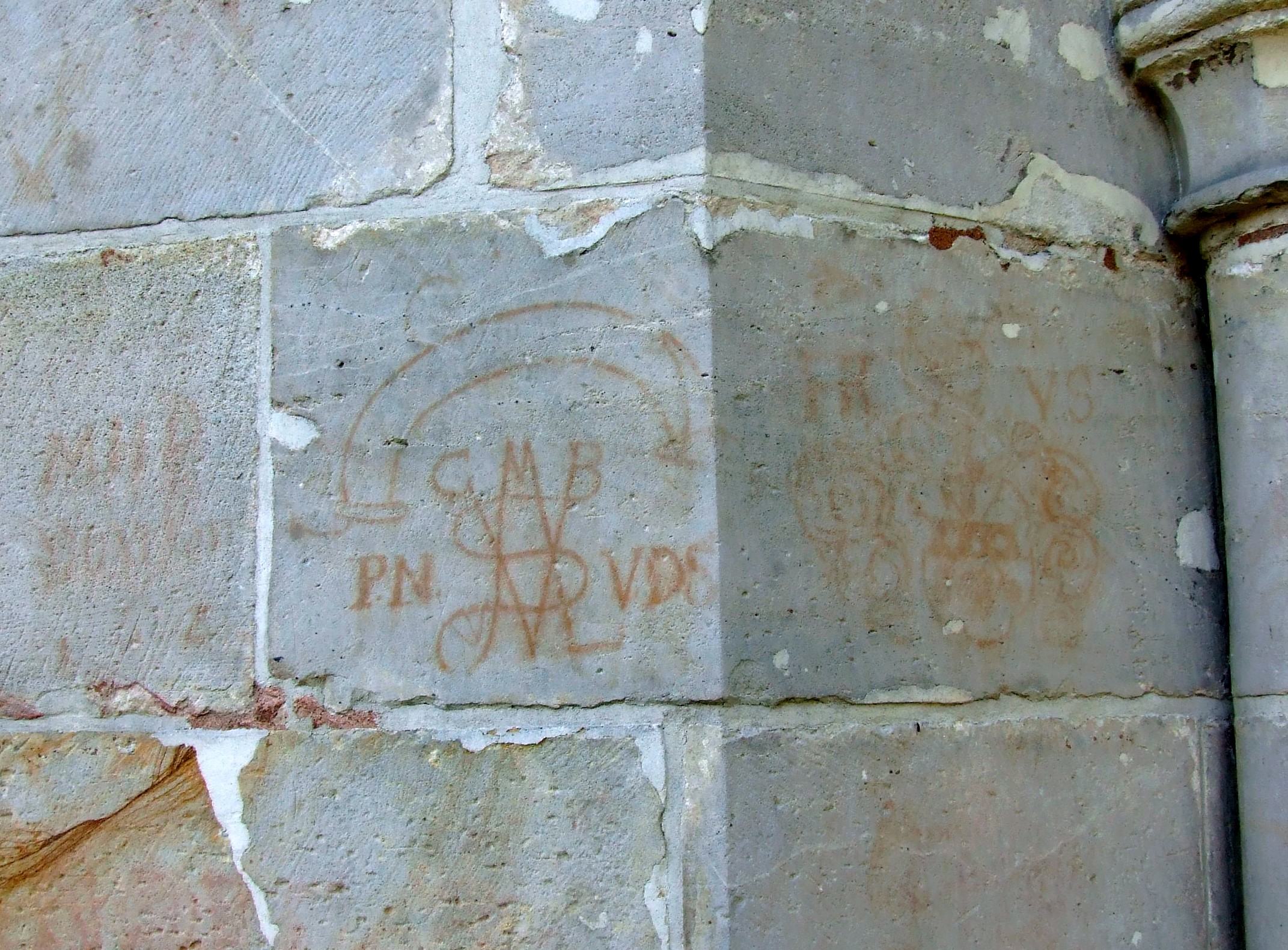 hand-written signatures from the 17-th century pilgrims left on the walls of a chapel in Żagań